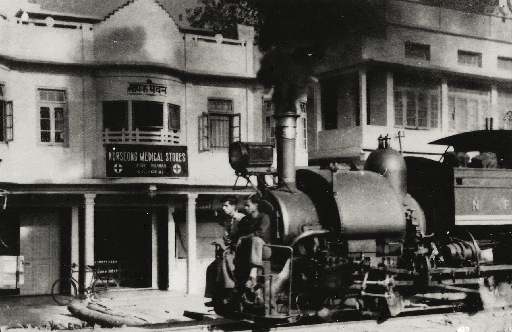 After independence rare picture of KMS